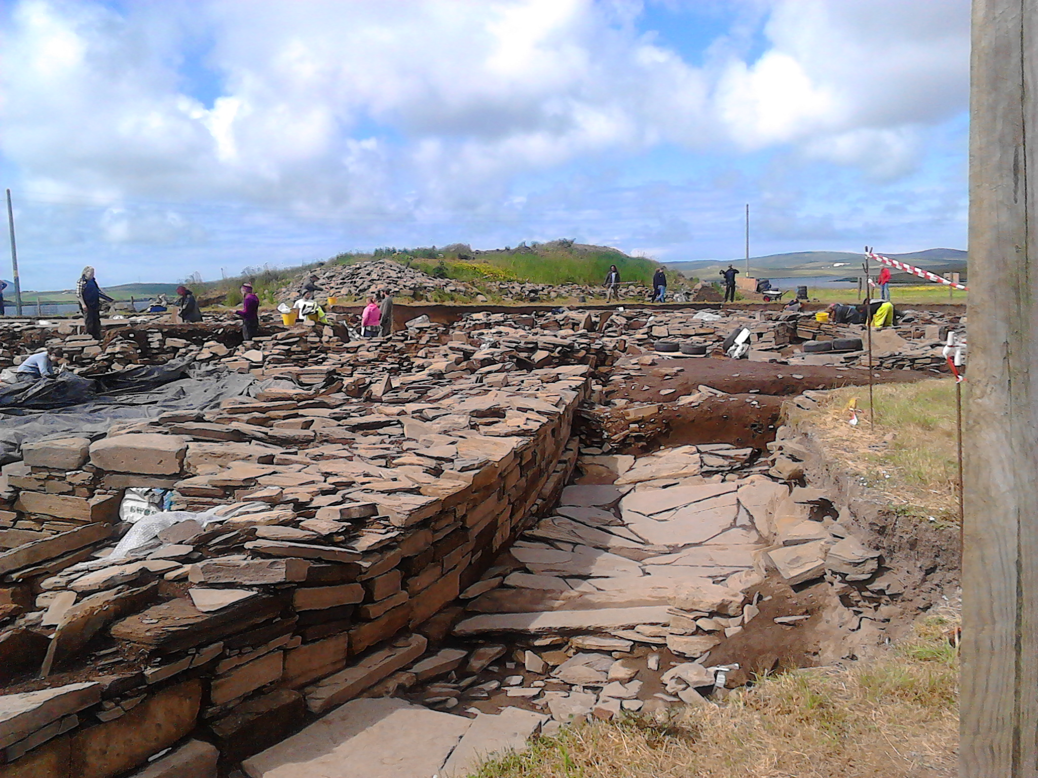 Ness of Brodgar dig 6.7.16, looking almost due south along the west wall of structure #1. Gives a good view of the quality of the stonework, and the flagstone floor is also visible. Structure #21 on right of picture. Neil Oliver in action pose in background.